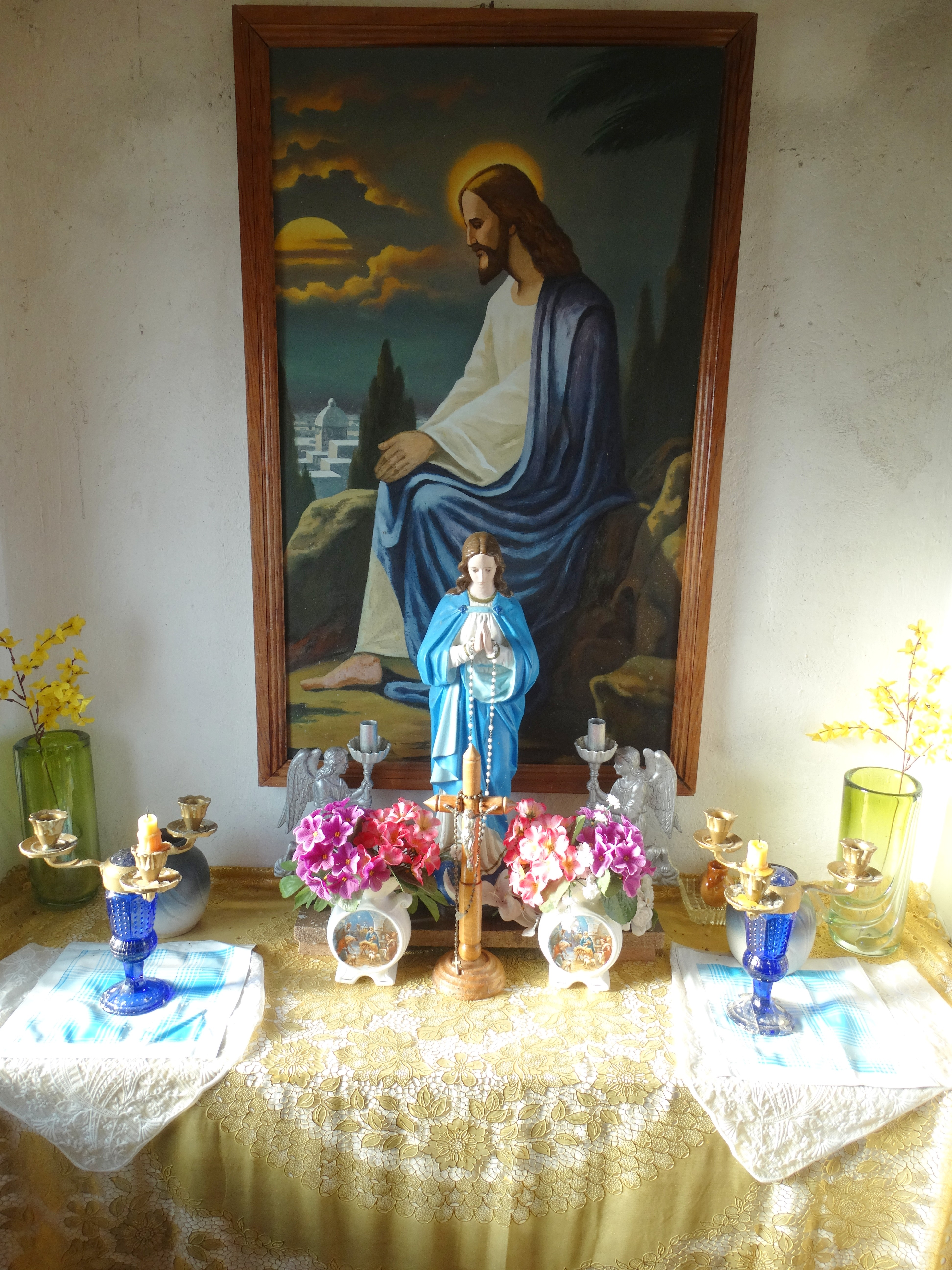 Chapel, Klebiškis, Prienai district, Lithuania